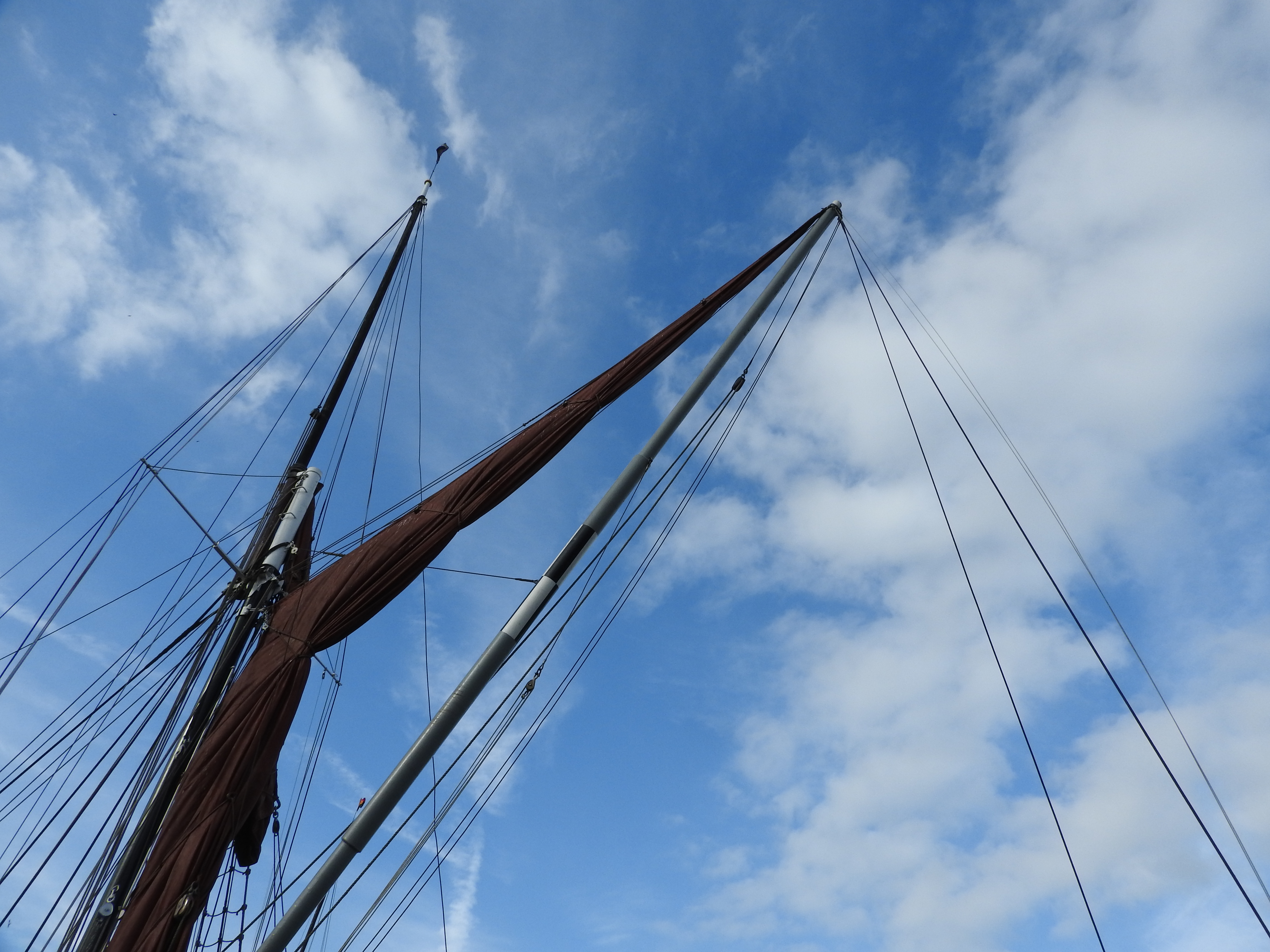 Thames sailing barge Xylonite at Maldon, Essex